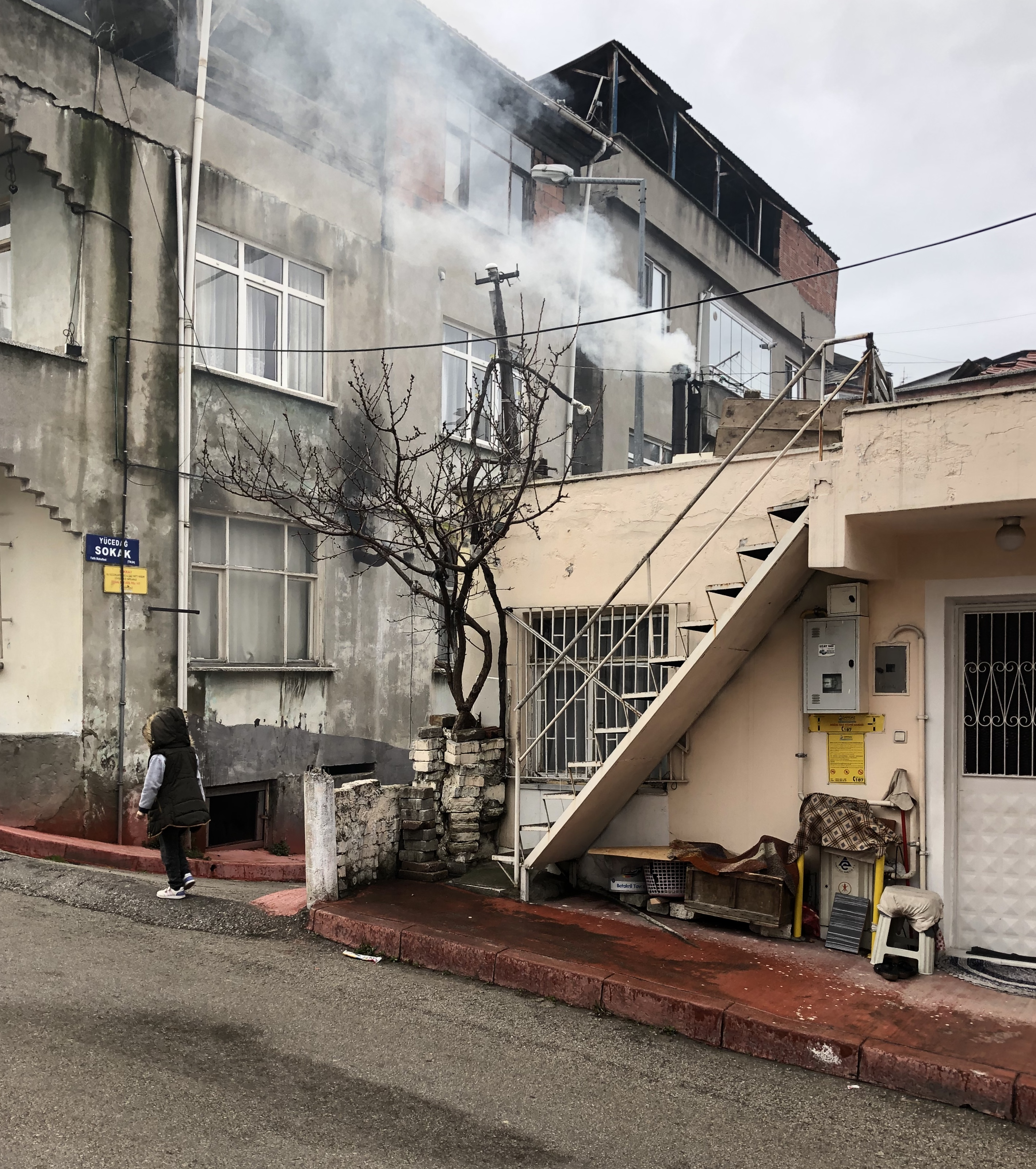 Child walks past smoking chimney in Samsun city, Turkey